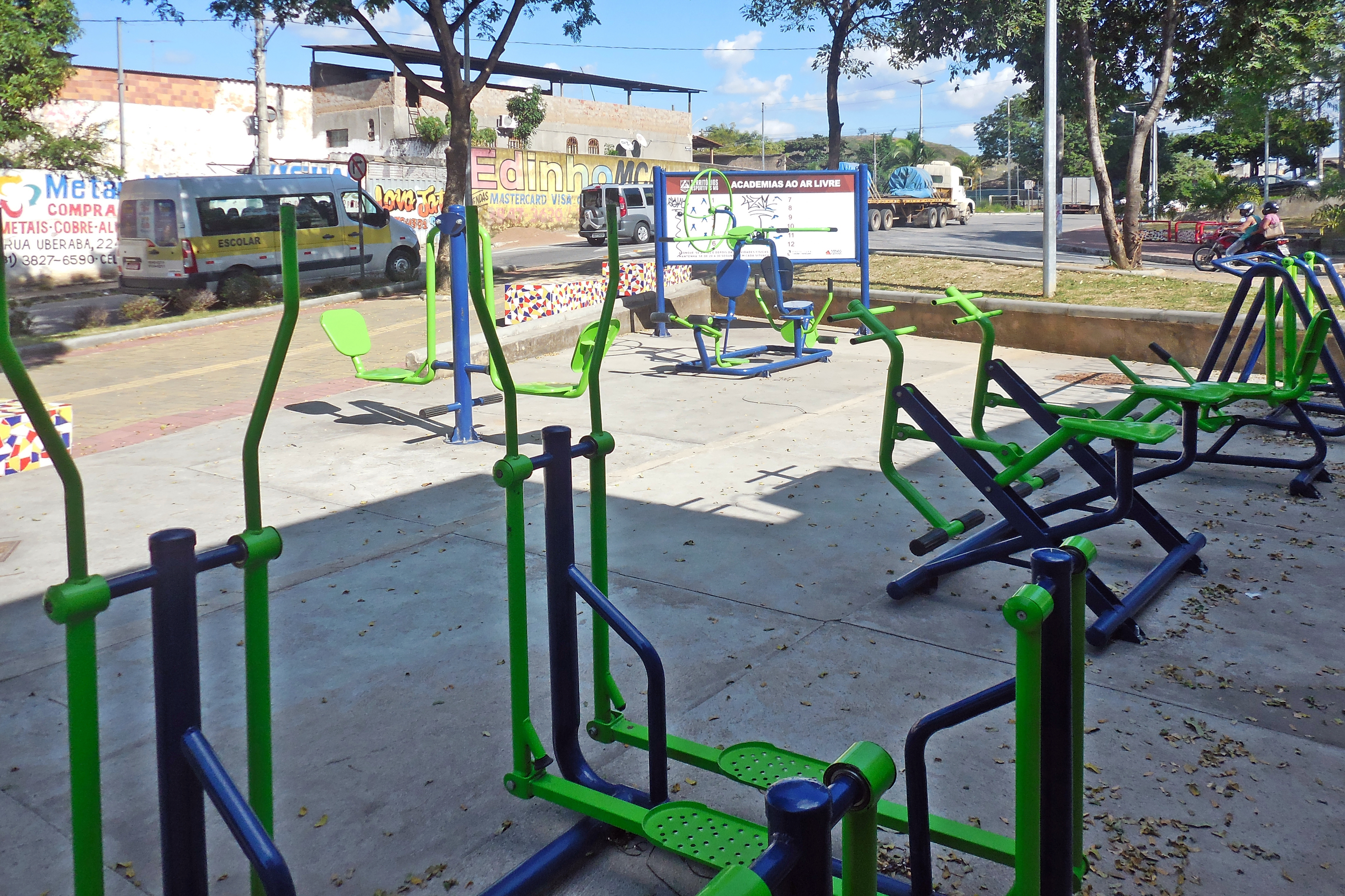 Outdoor gym and walking path in the Santa Helena neighborhood, in Coronel Fabriciano, Minas Gerais, Brazil.